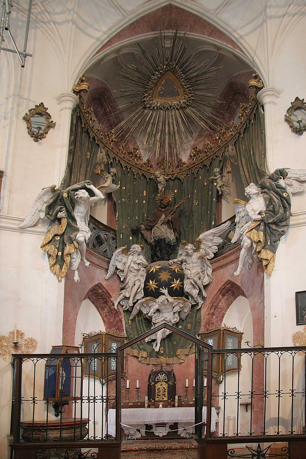 Altar of the pilgrimage church of saint John Nepomucene, Zelena Hora, district of Žďár nad Sázavou, Czech Republic